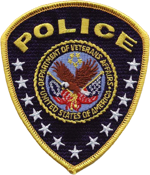 Image is similar, if not identical, to the United States Department of Veterans Affairs Police patch. Made with Photoshop.